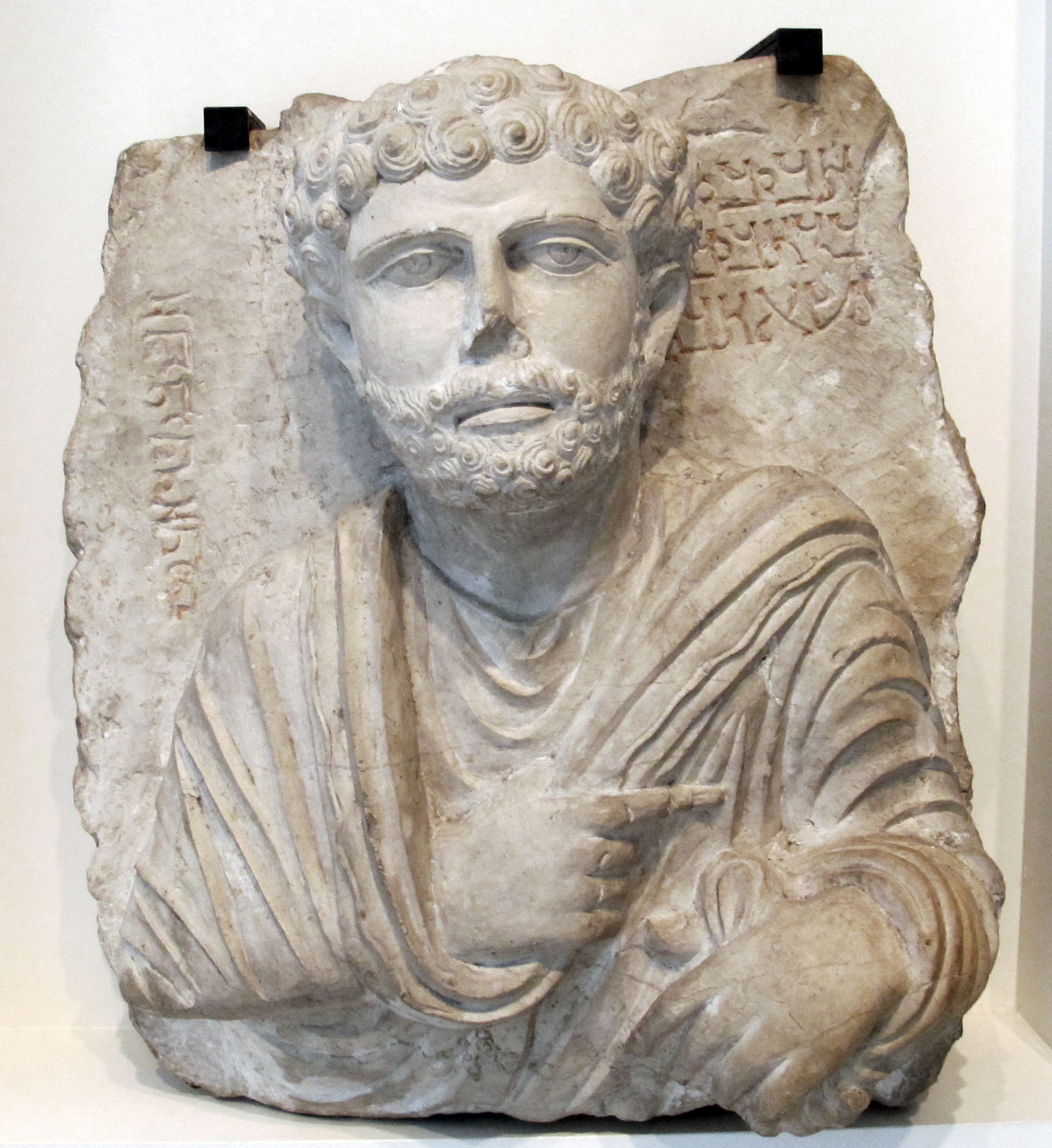 Egyptian antiquities in the Musée d'art et d'histoire de Genève